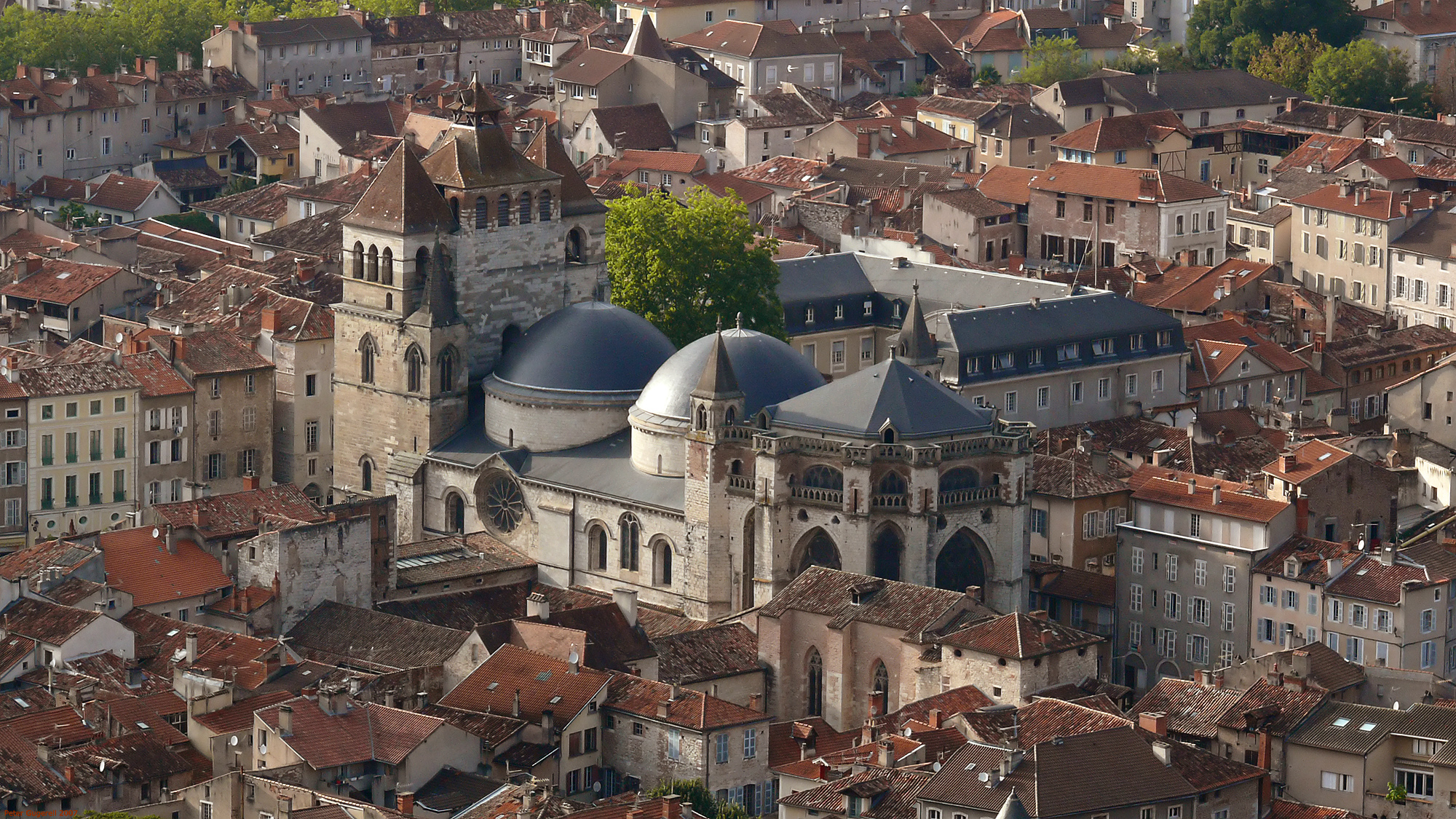 Cathedral Saint-Étienne, Cahors